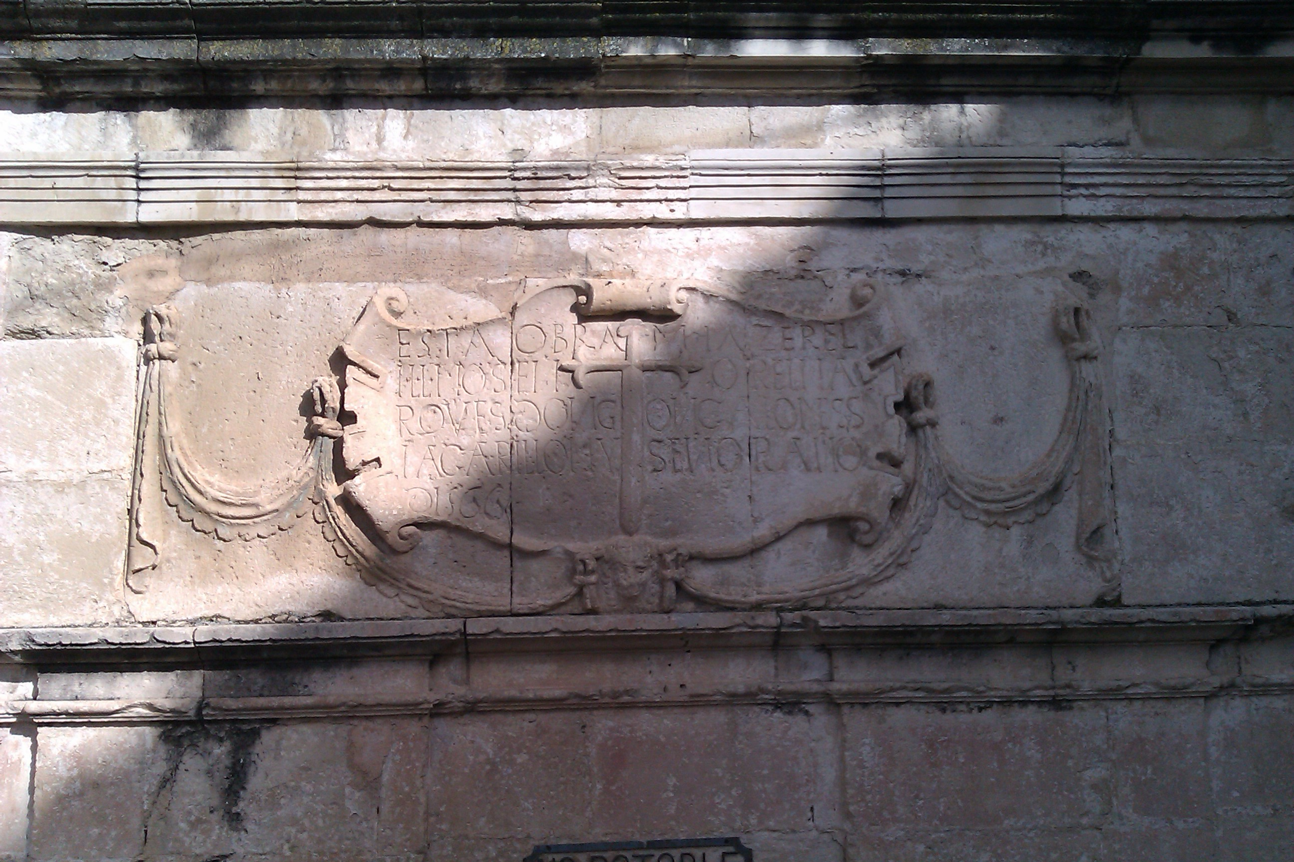 Inscription of the Renaissance (16th-century) fountain in Isabel II Square, La Guardia de Jaén, Jaén, Spain.